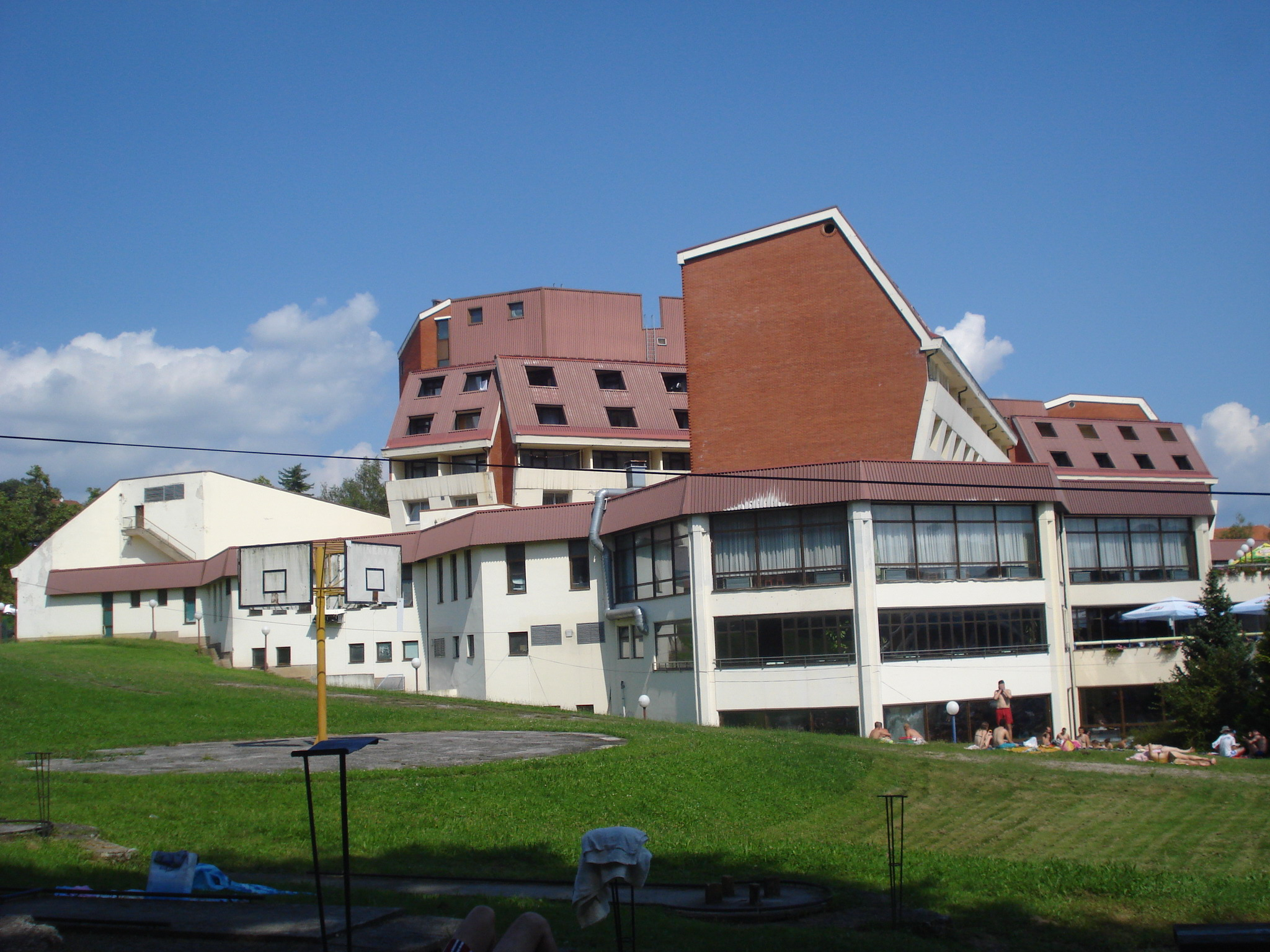 "Minerva" Hotel in Varaždinske Toplice, Croatia - west view